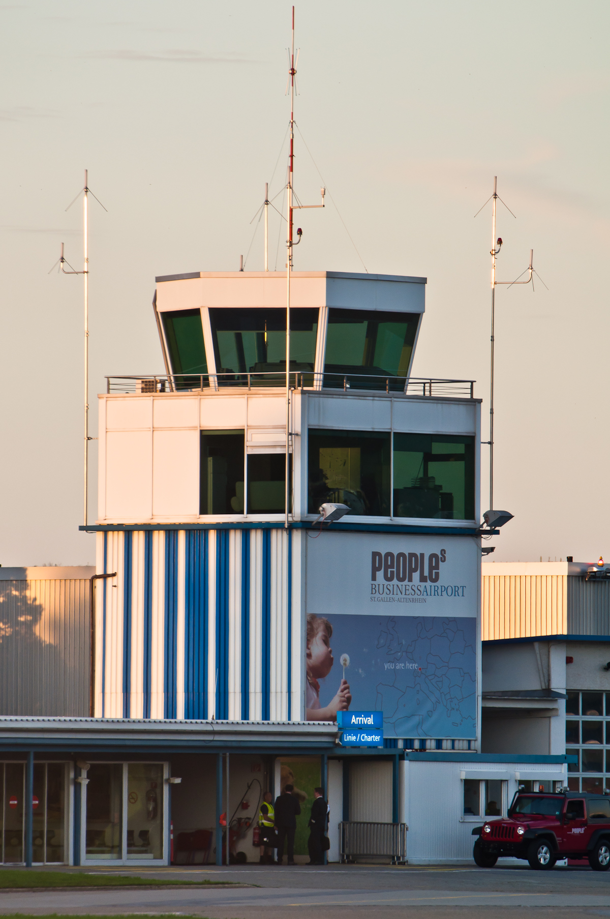 Tower of St Gallen-Altenrhein Airport "Peoples Business Airport" (LSZR)